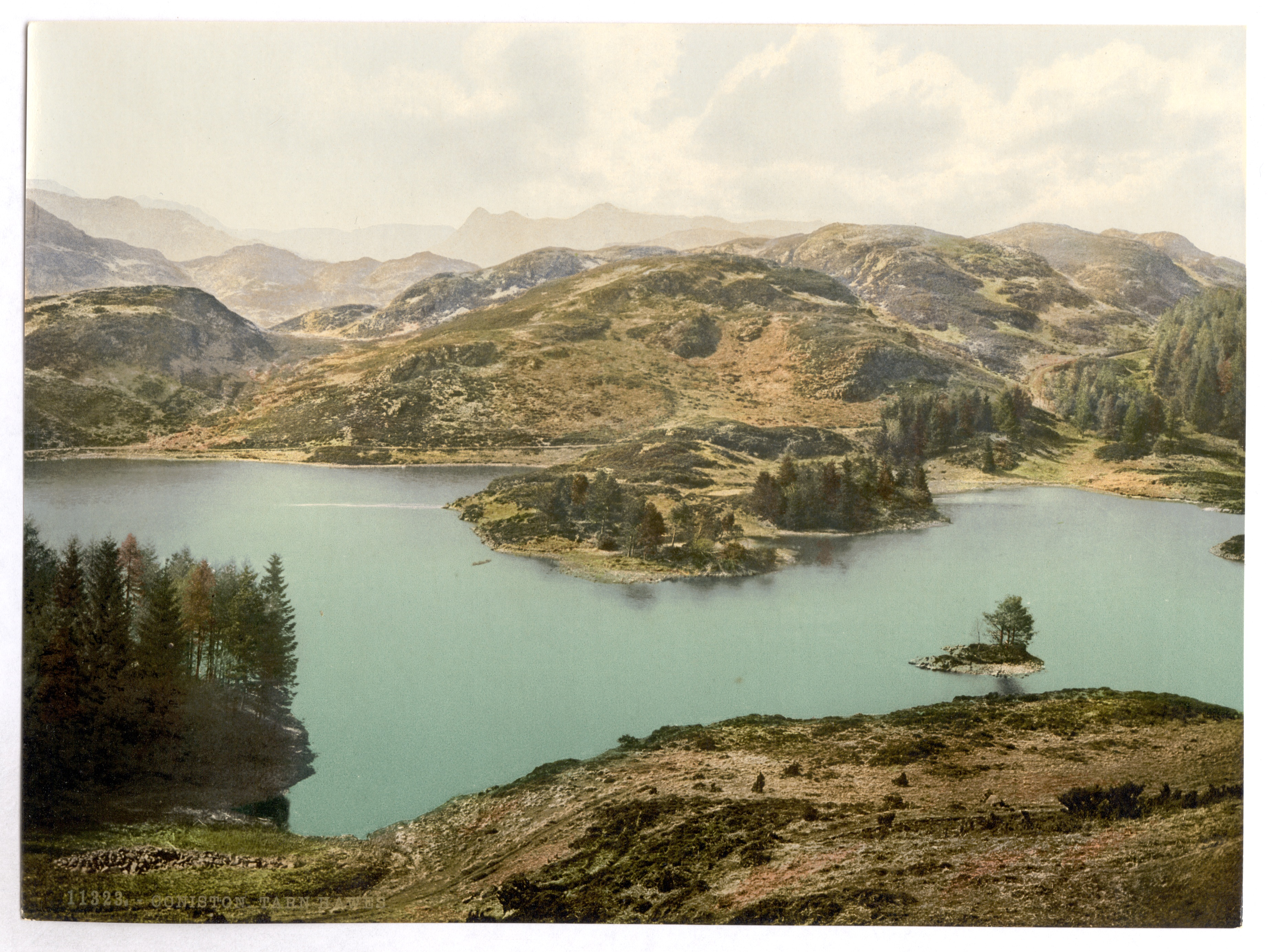 Print no. "11323".; Forms part of: Views of the British Isles, in the Photochrom print collection.; More information about the Photochrom Print Collection is available at Title from the Detroit Publishing Co., Catalogue J-foreign section, Detroit, Mich. : Detroit Publishing Company, 1905.